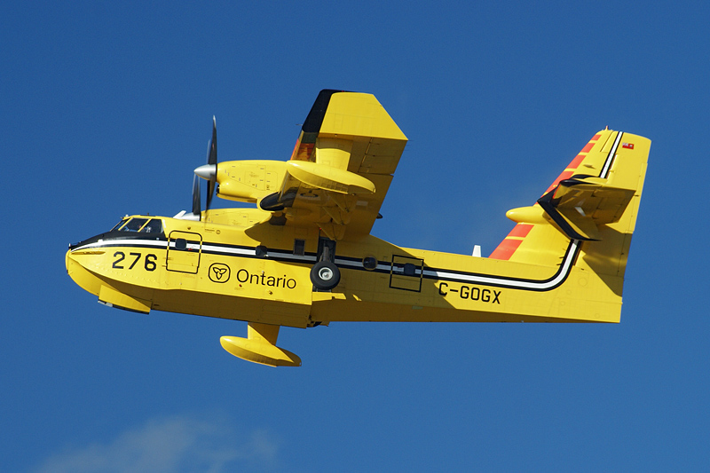 Canadair CL-415 operating out of Dryden, Ontario, Canada, on fire dispatch, September 2007.